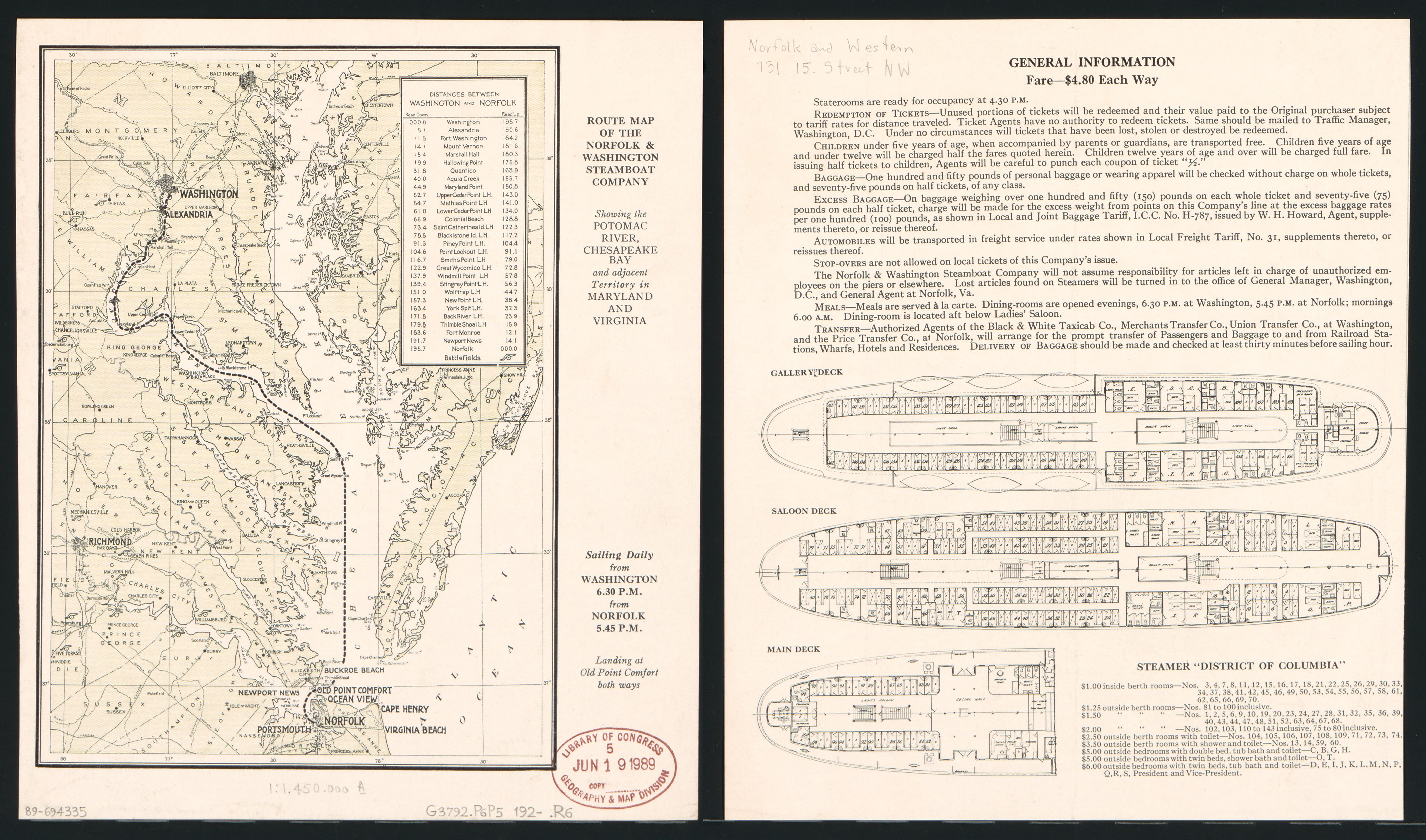 Includes notes and distance table. Text, 3 deck plans, and fare table on verso. Available also through the Library of Congress Web site as a raster image.